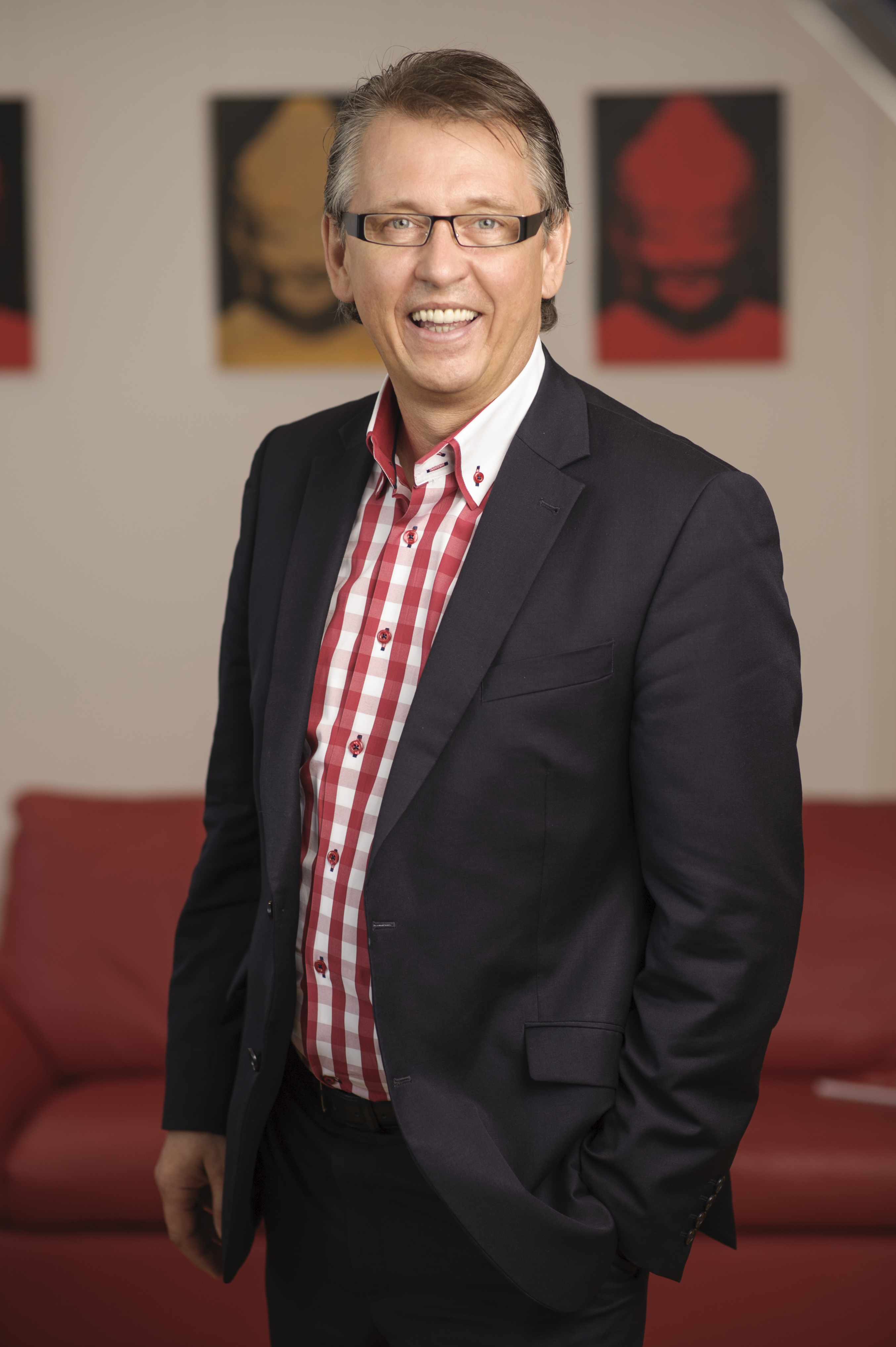 Gerd Kulhavy